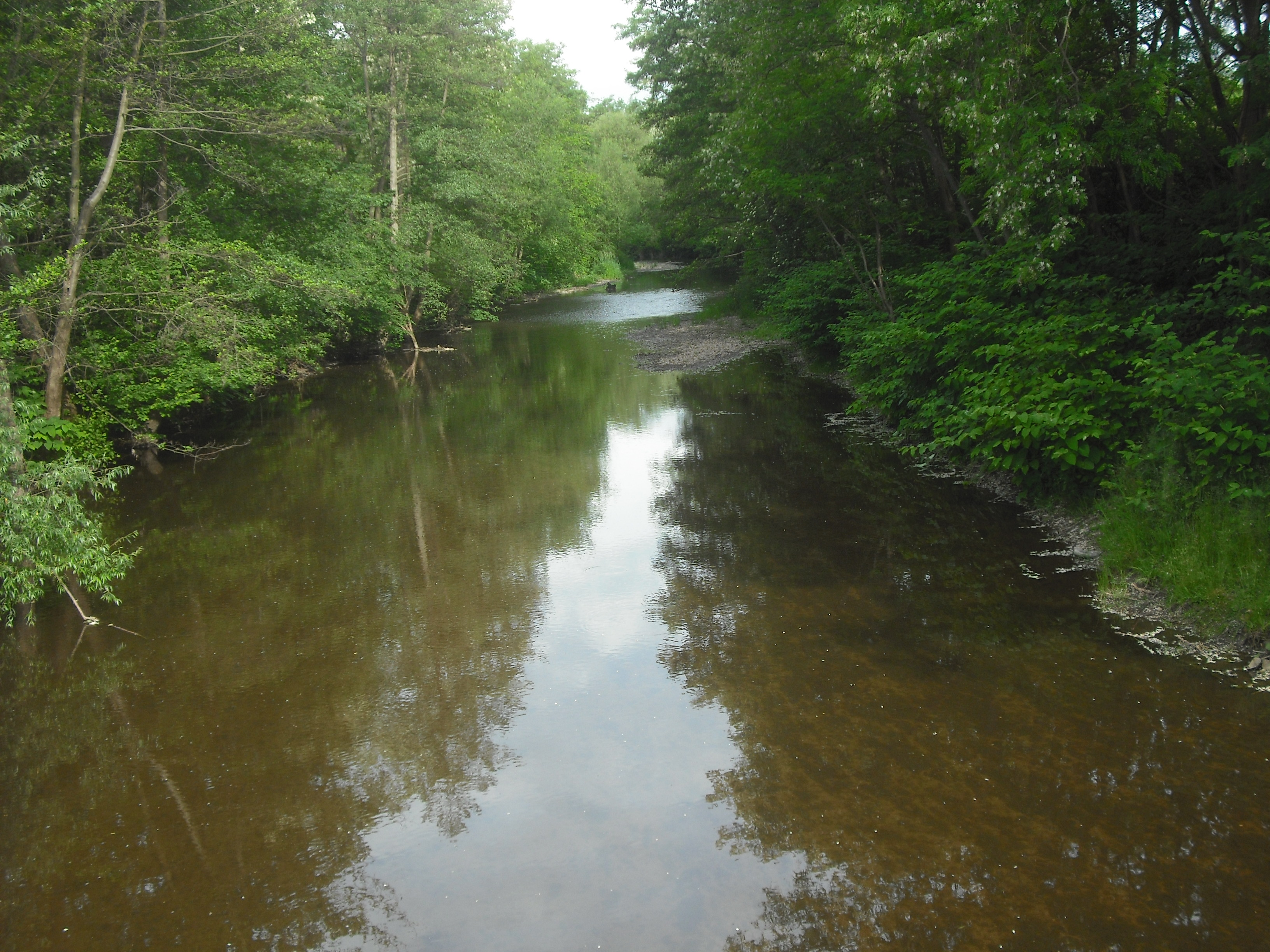 Le Giessen à Sélestat, France